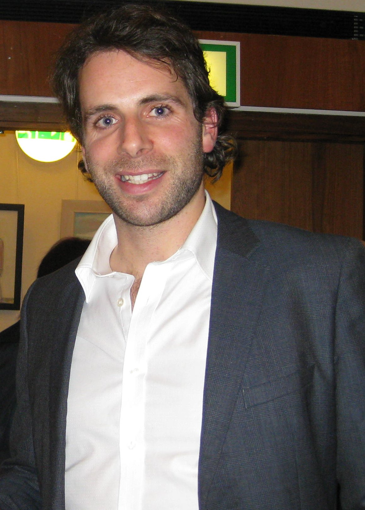 A photo of Mark Beaumont.